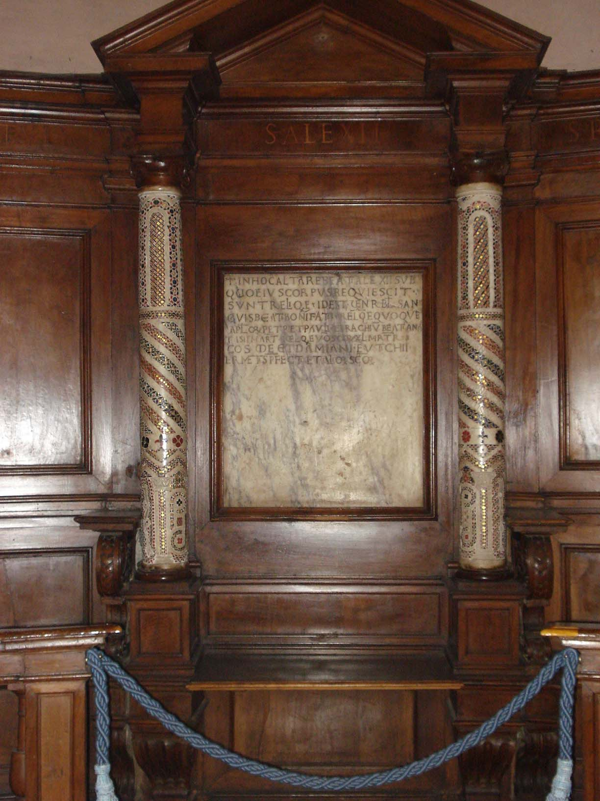 Cosmatesco column and original altar desk